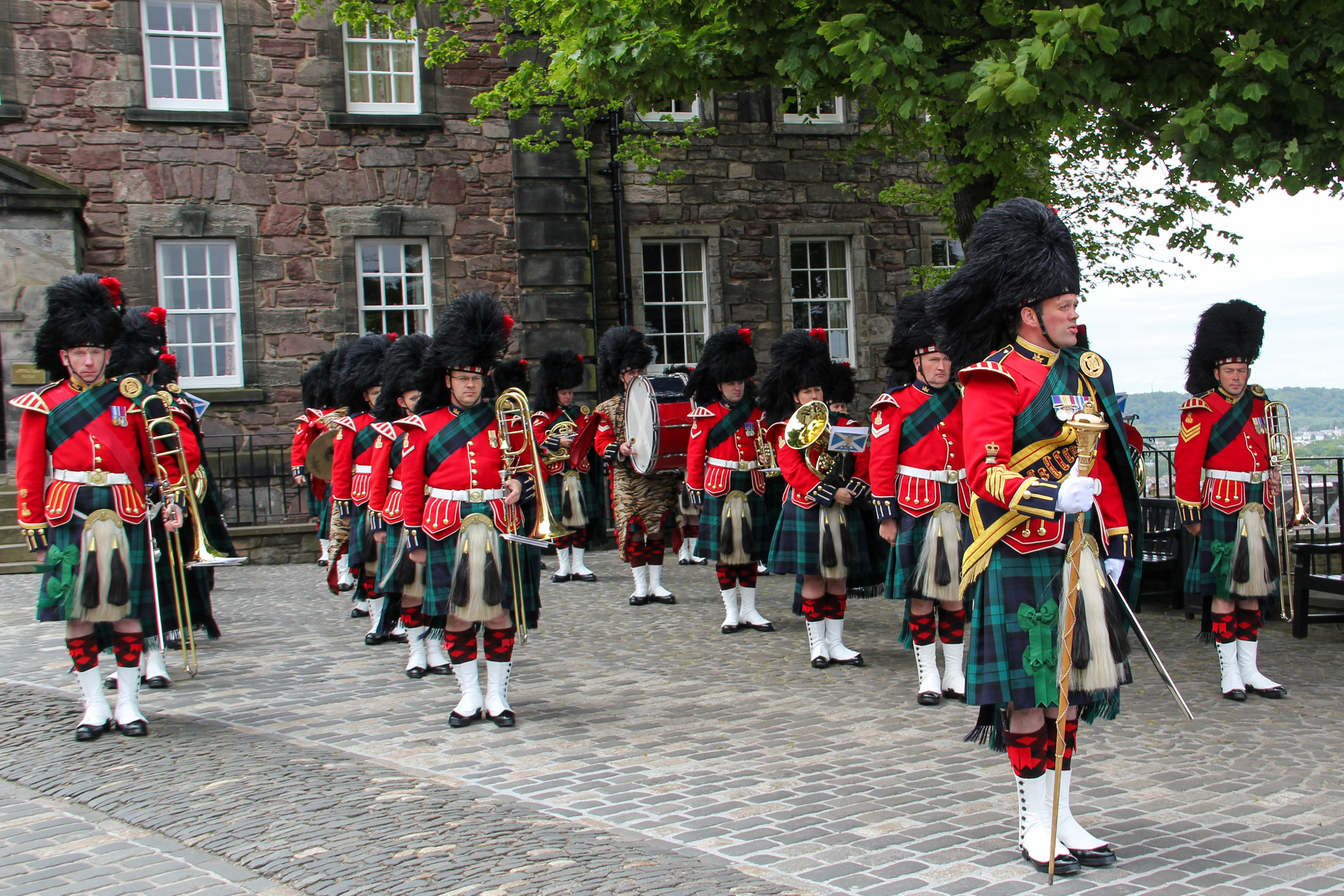 The Band of The Royal Regiment of Scotland at Edinburgh Castle, celebrating the Diamond Jubilee of Queen Elizabeth II.